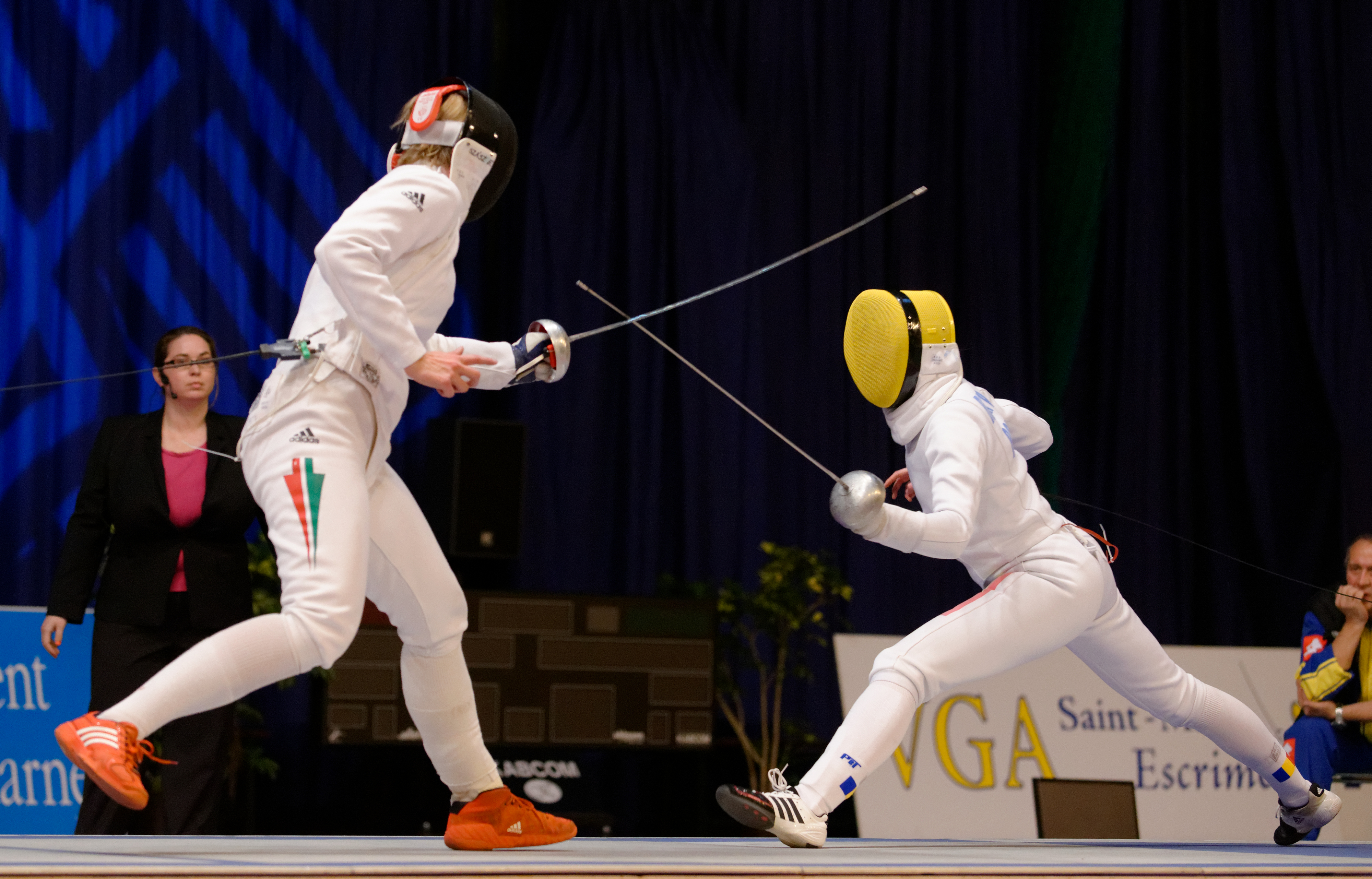 Emese Szász (left) v Ana Maria Brânză (right). Final of the Challenge international de Saint-Maur 2013, women's épée World Cup tournament.